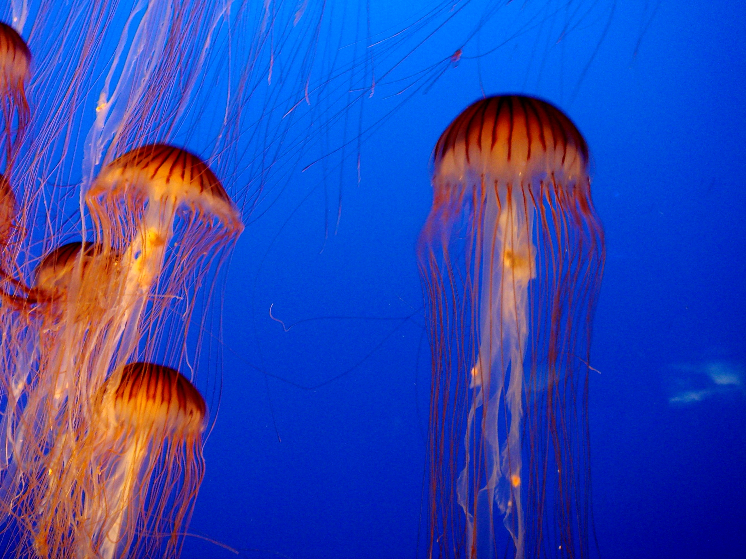 Jellyfish - explore an aquarium to see some of the wonders of the sea. Canada, British Columbia, Vancouver Aquarium.